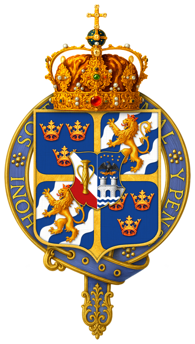 Garter-encircled Arms of Gustaf VI Adolf, King of Sweden